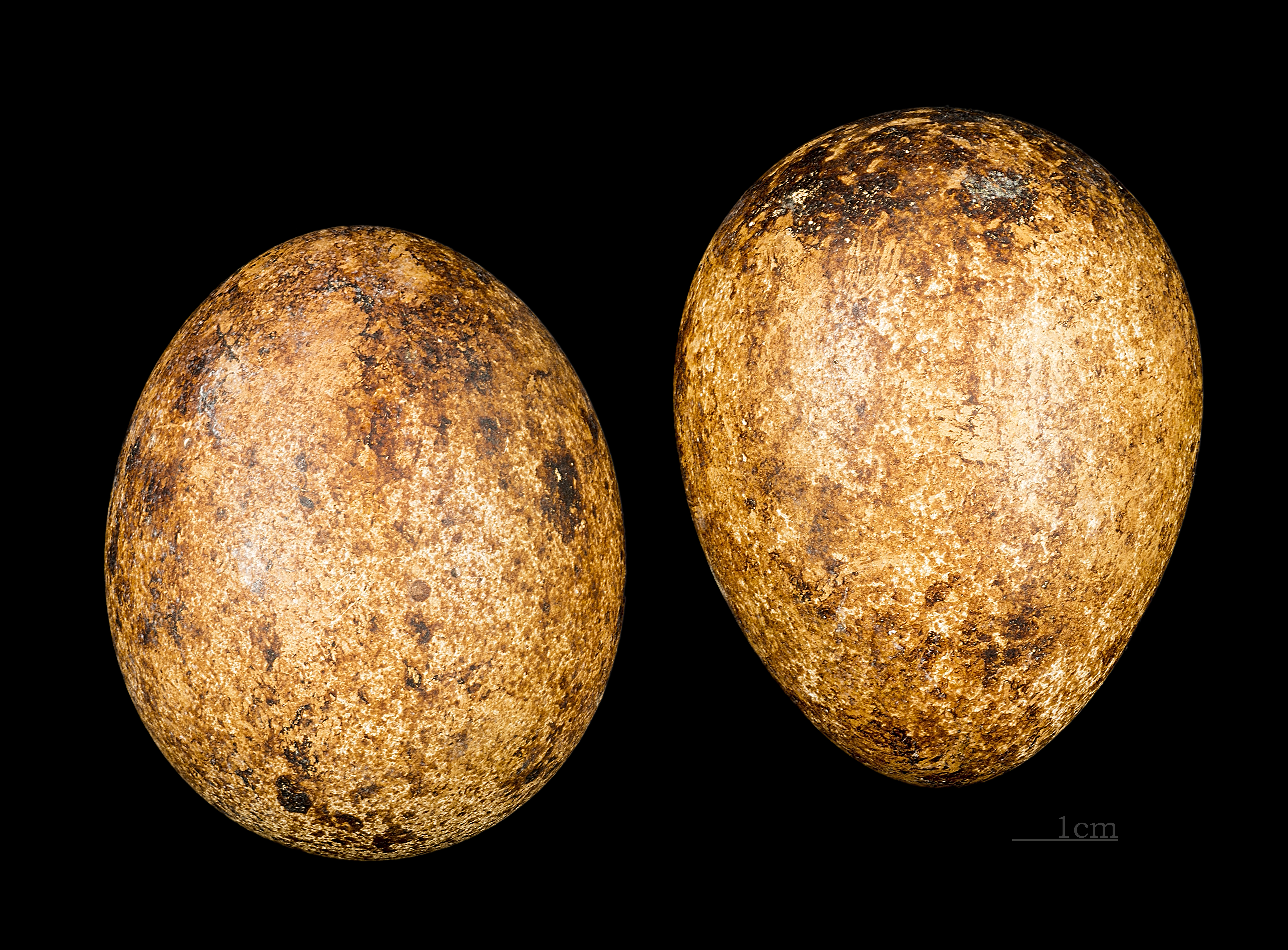 Egg of Southern Crested Caracara Collection of René de Naurois / Jacques Perrin de Brichambaut.